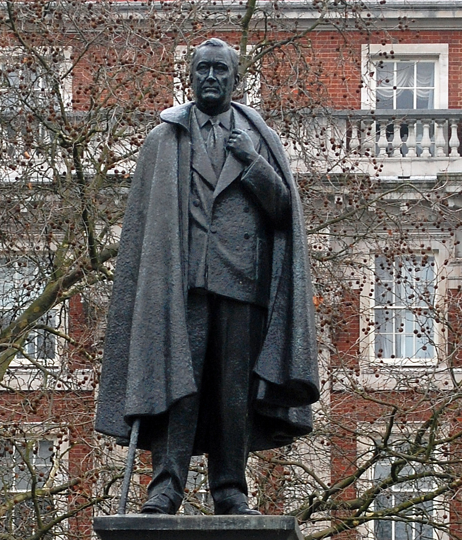 Franklin Delano Roosevelt [1882-1945], the only chap to be elected president of the United States four times. This statue of him is by William Reid Dick and stands in Grosvenor Square, not far from the American embassy. Originally posted in "Guess Where UK."